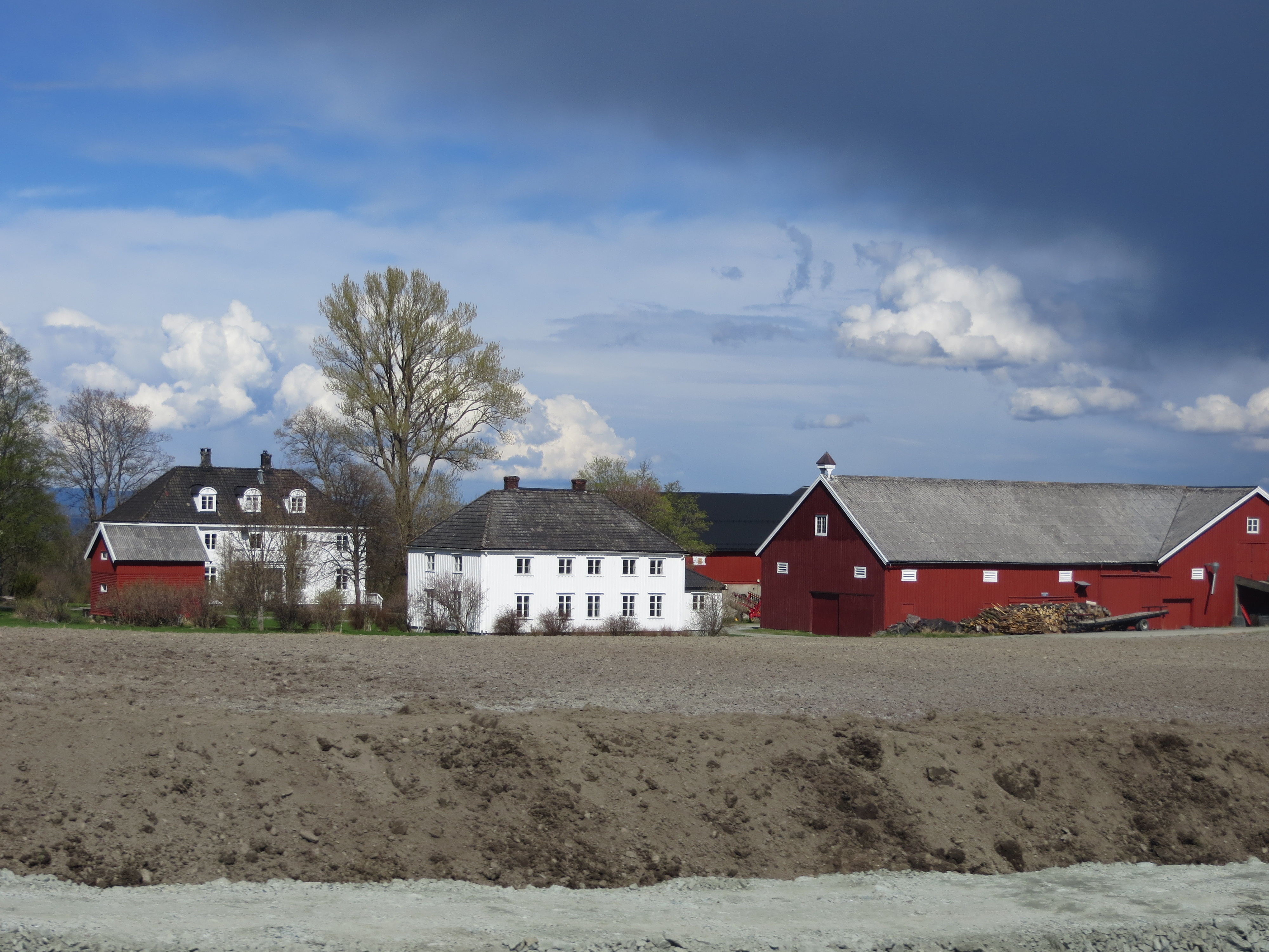 Lade manor in Trondheim, Norway. Settled since ancient times.